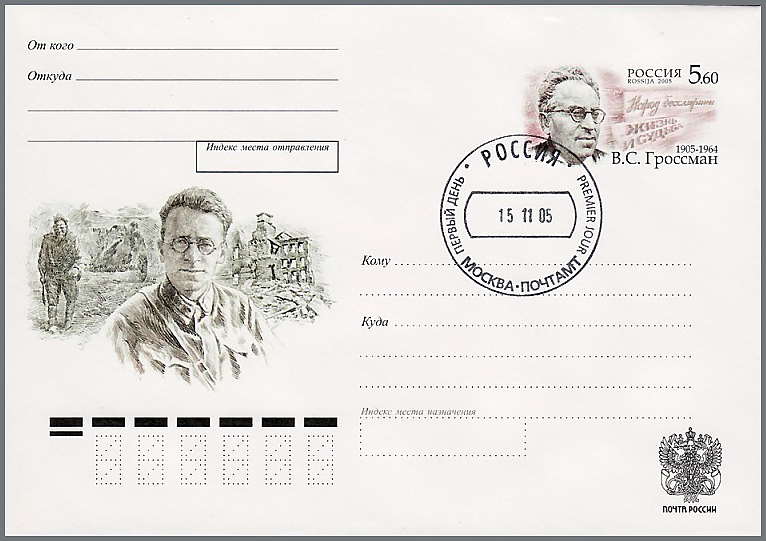 Russia, 2005. Envelope with commemorative stamp (EWCS) № 149. 100 birth anniversary Vasily Grossman, a writer. The first day of issue postmark 11/15/2005 Moscow, Central Post Office.